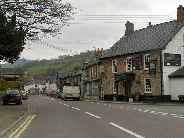 Village scene, Penybontfawr